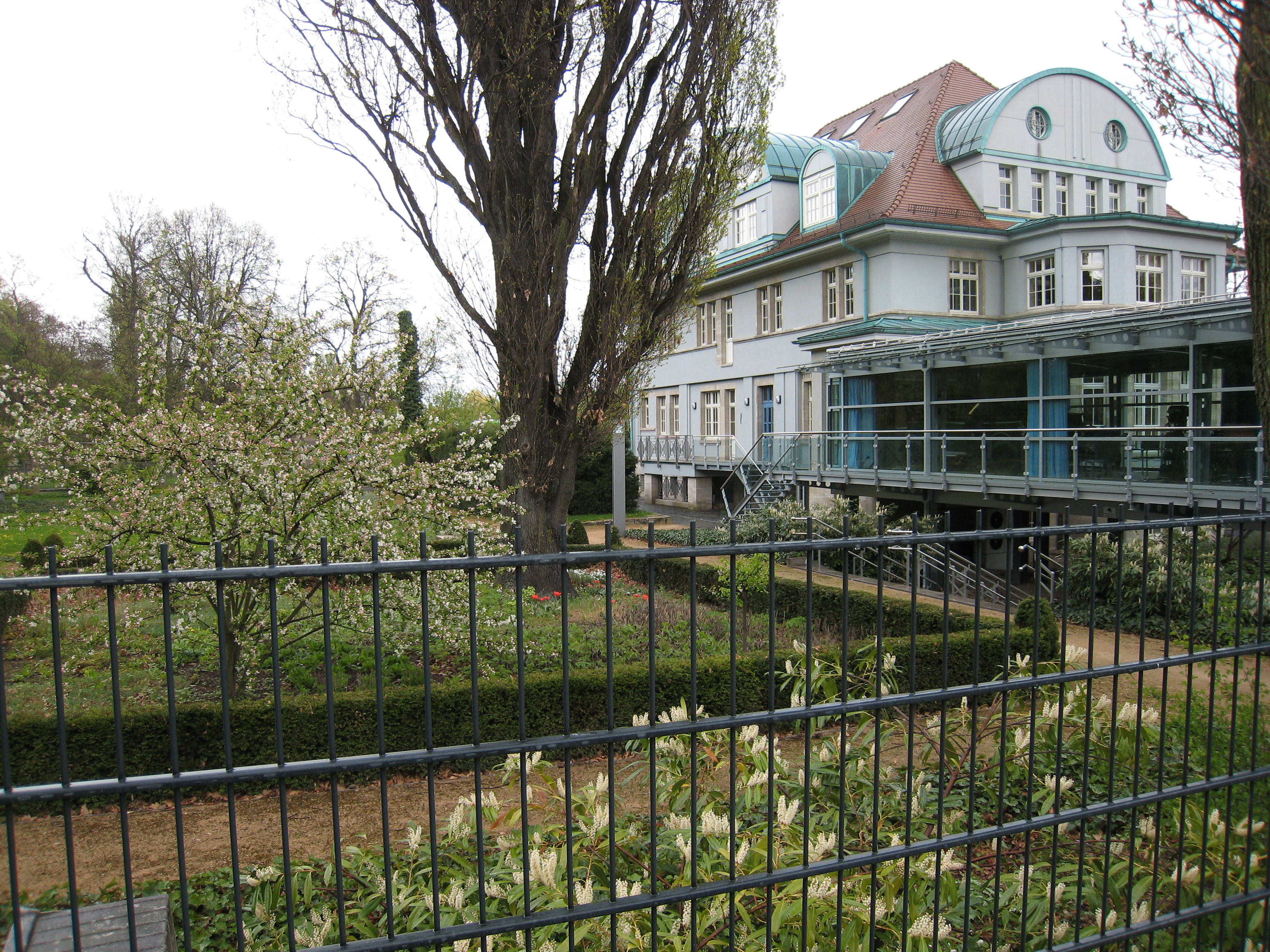 backside with gardens